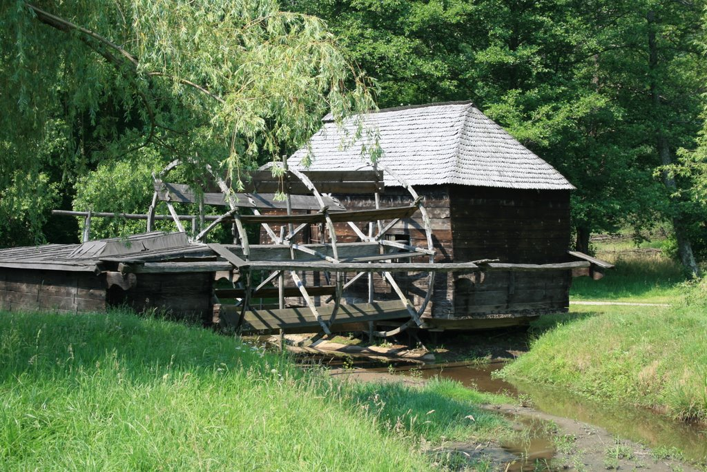 reconstructed floating mill in the Sibiu open-air folk museum, originally it functioned on the Someș river in Lucăcești village, Maramureș county